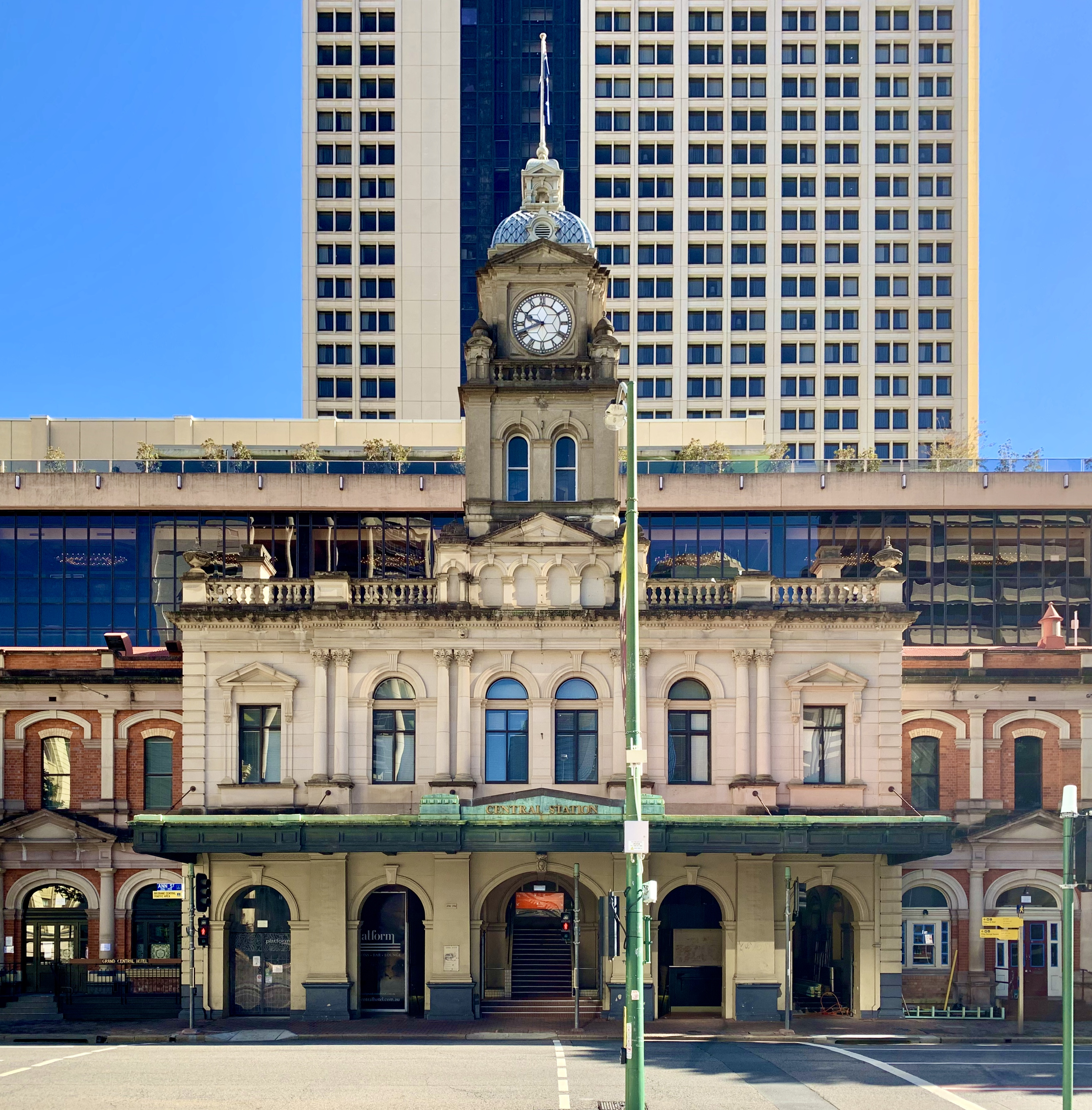 Central railway station, Brisbane, Queensland